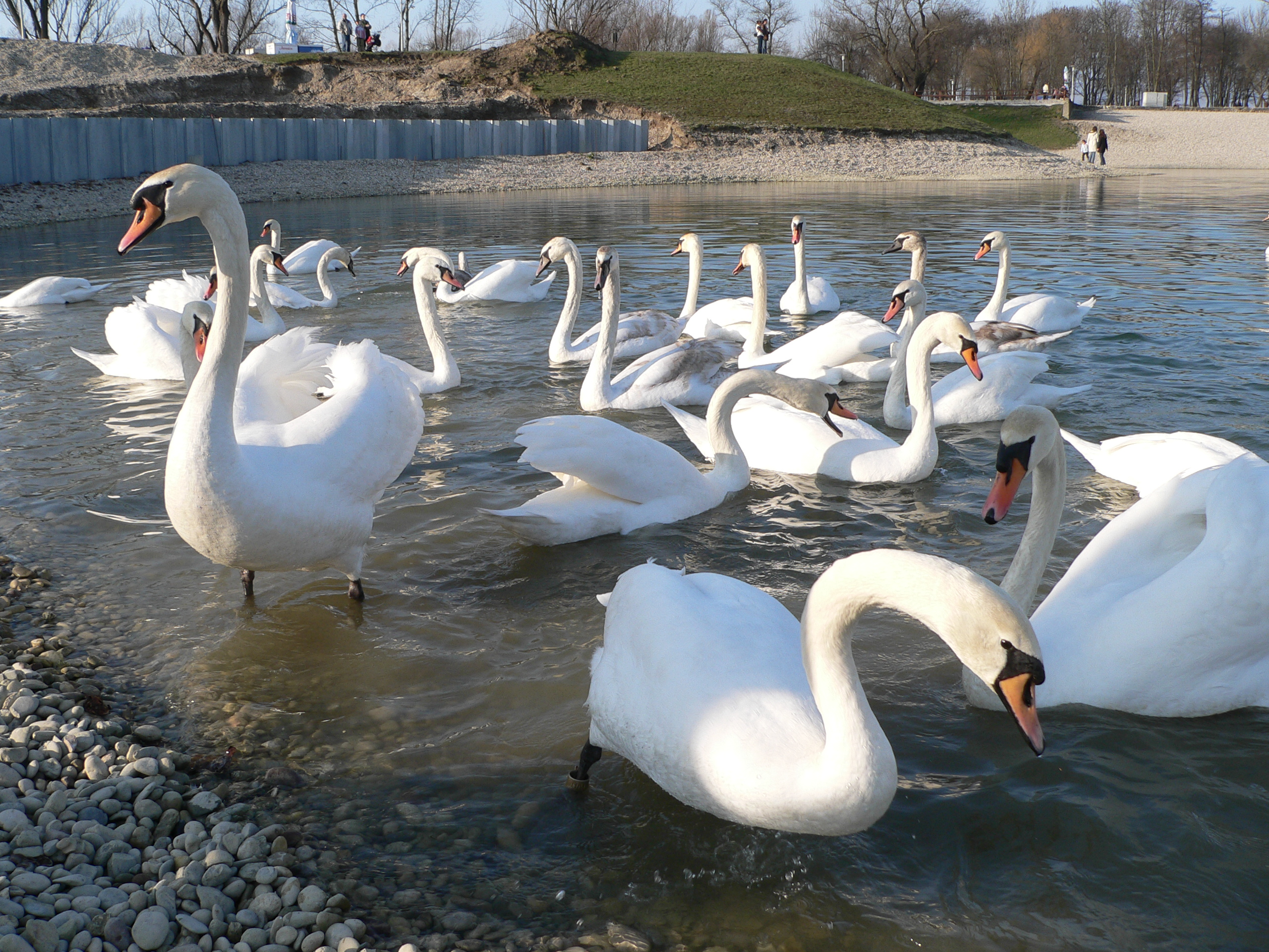 Mute Swans on Lake Bundek in Zagreb.